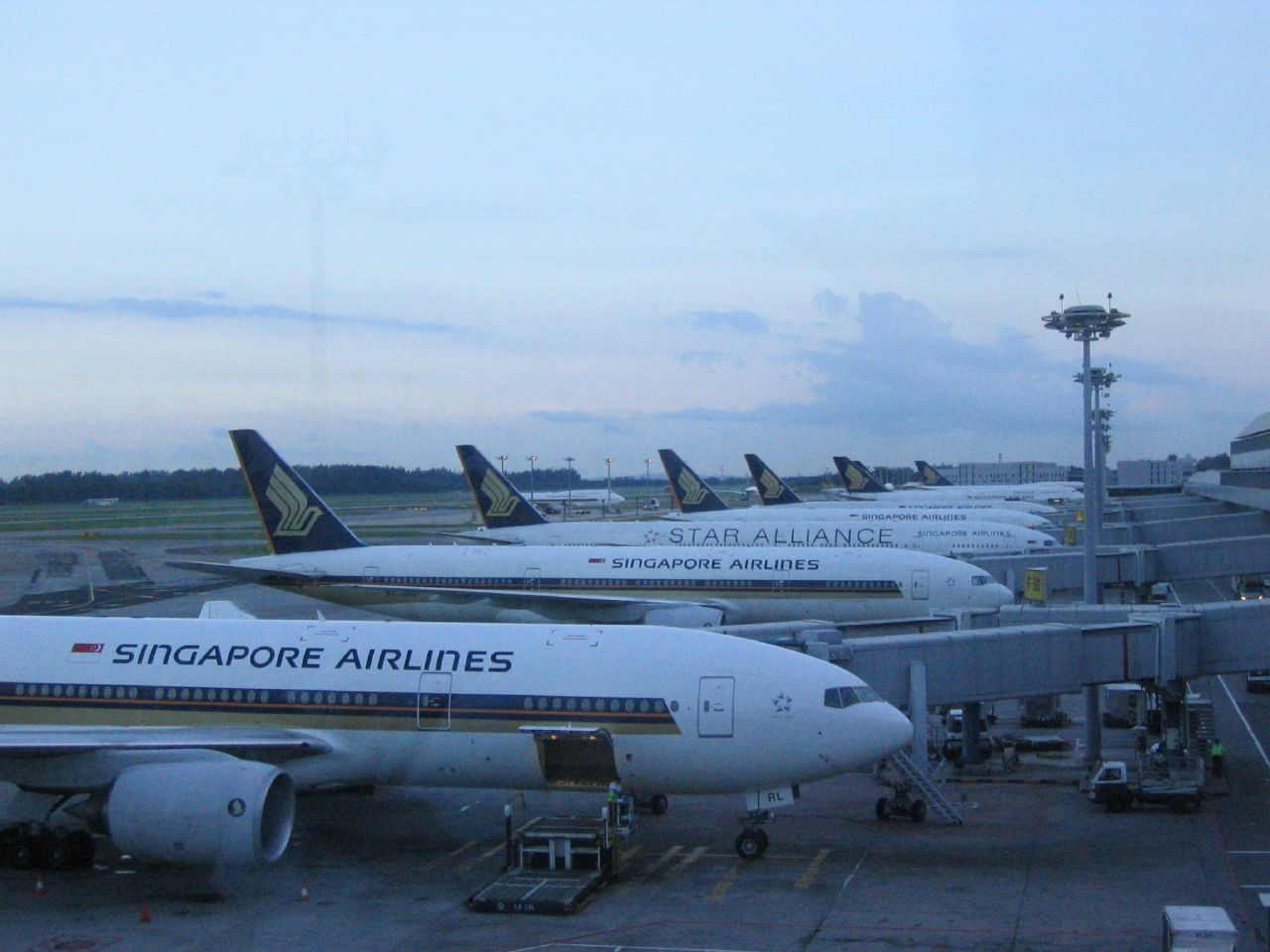 Singapore Airlines operations at Singapore Changi.